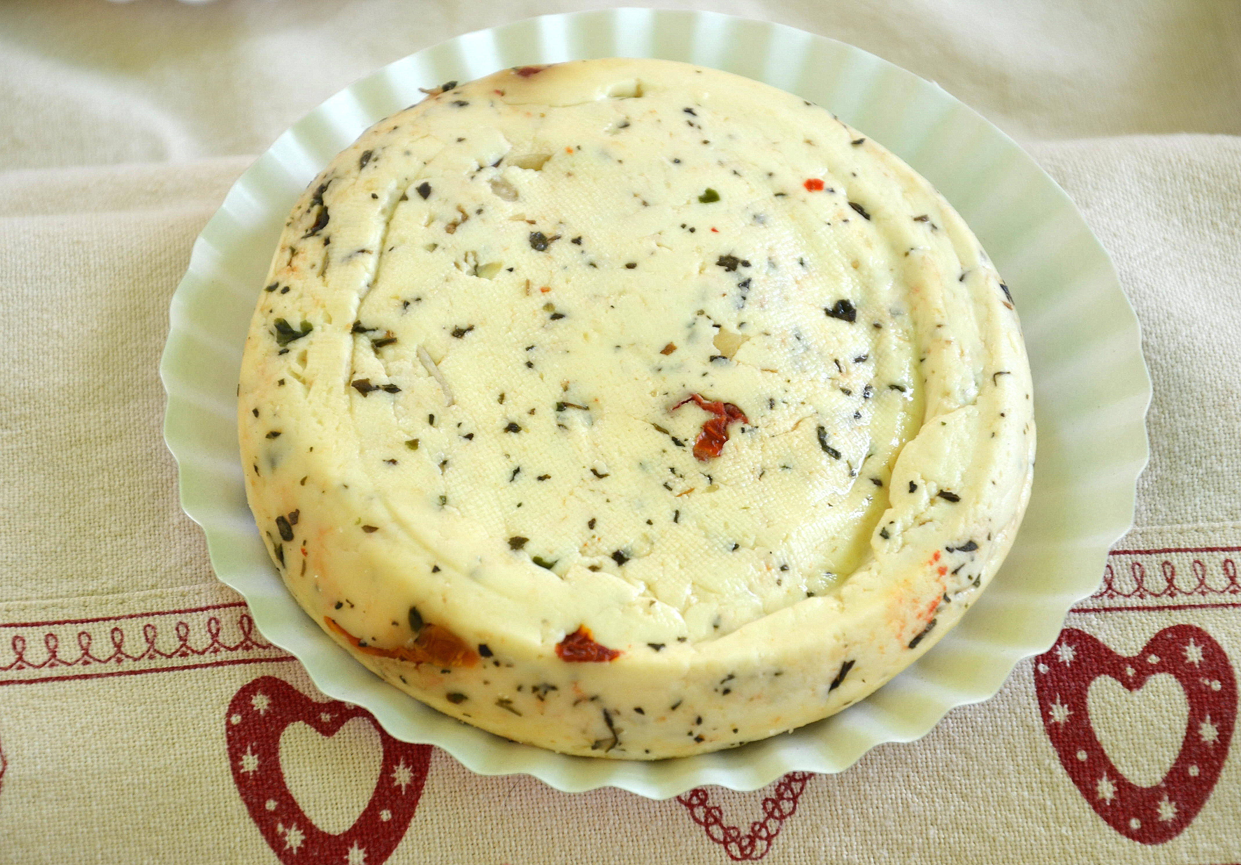 Goat's-milk cheeses from Poland